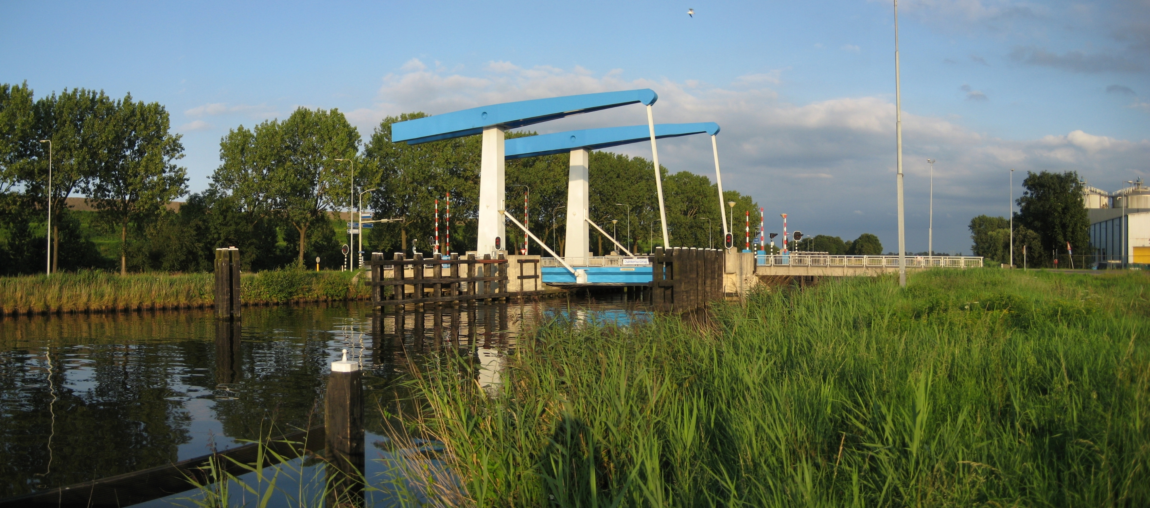 De Duinkerkenbrug, a road bridge in the Dutch city of Groningen over the Winschoterdiep.